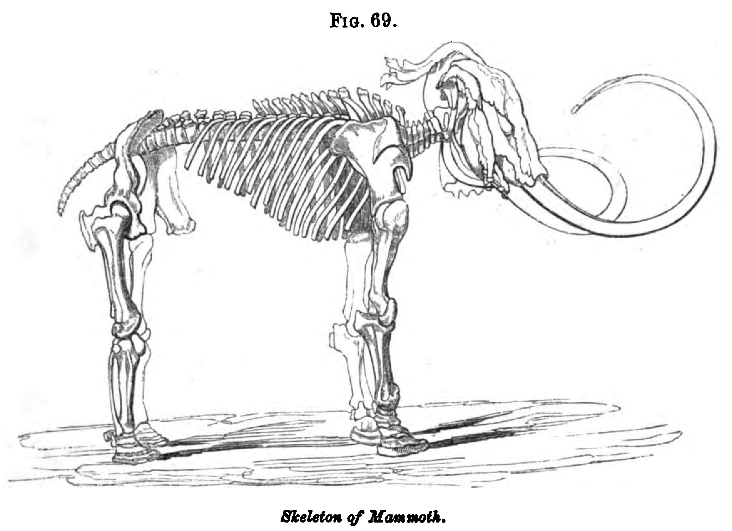 Skeleton of Mammoth. Figure 69 from the 10th edition of Vestiges of the Natural History of Creation published anonymously by Robert Chambers.